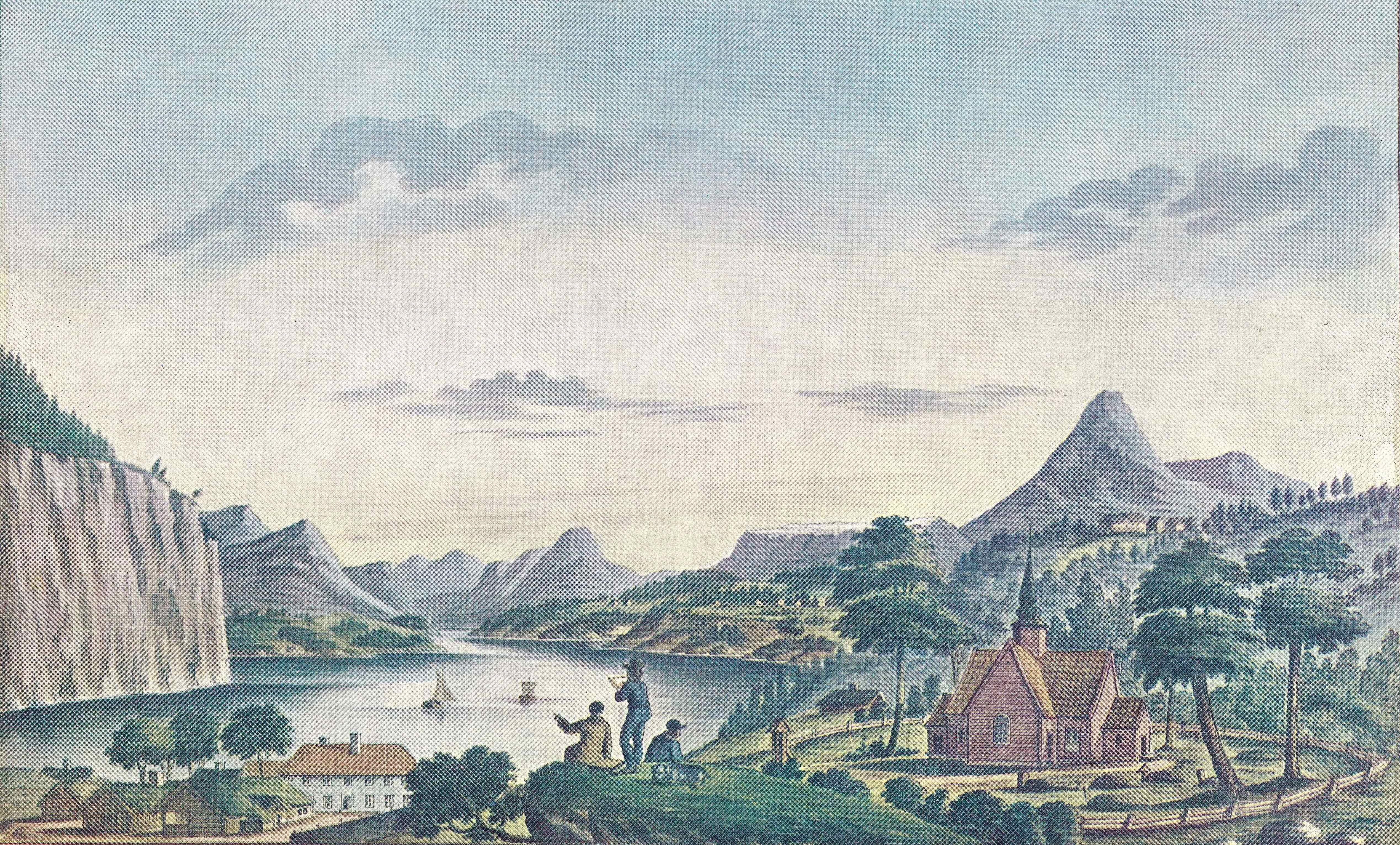 J.F.L. Dreier (1775-1833): View from Stranda towards Tafjord/Norddalsfjord